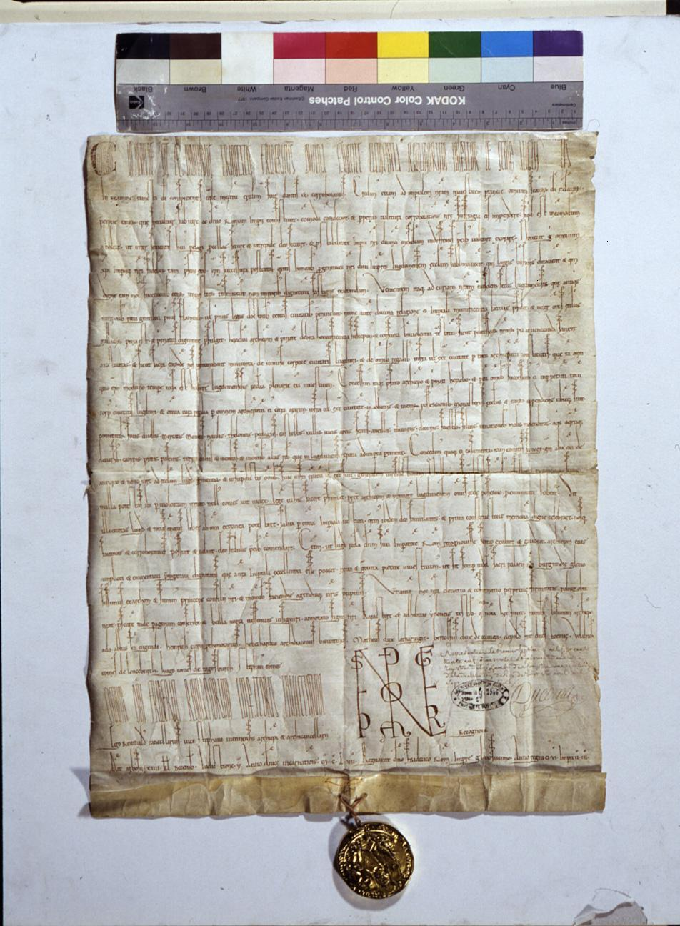 Golden bull issued by Frederick I on November 18th, 1157. Stored at Rhône's departmental archives (Lyon, France) under code: 10 G 2546